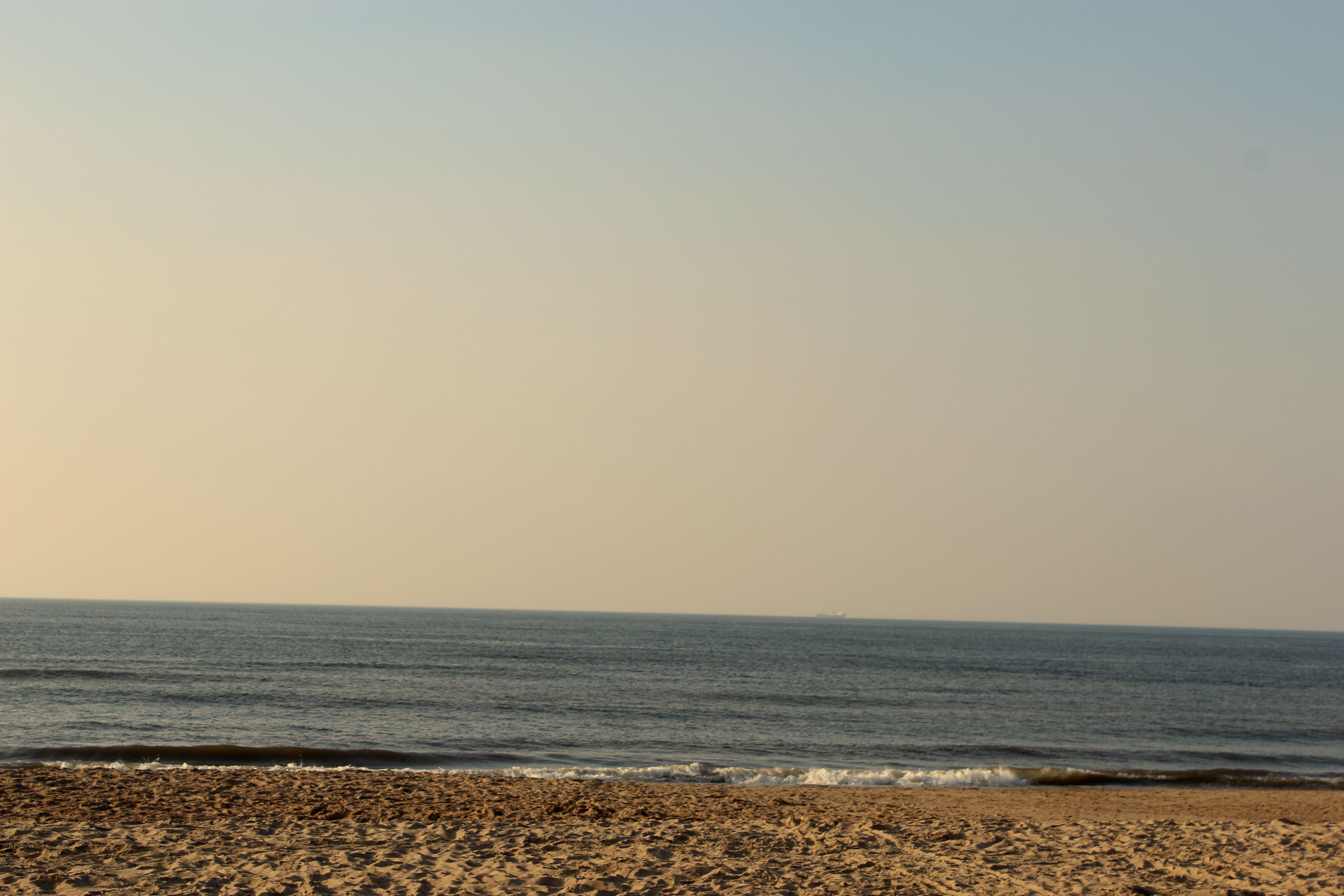 North sea From The Hague